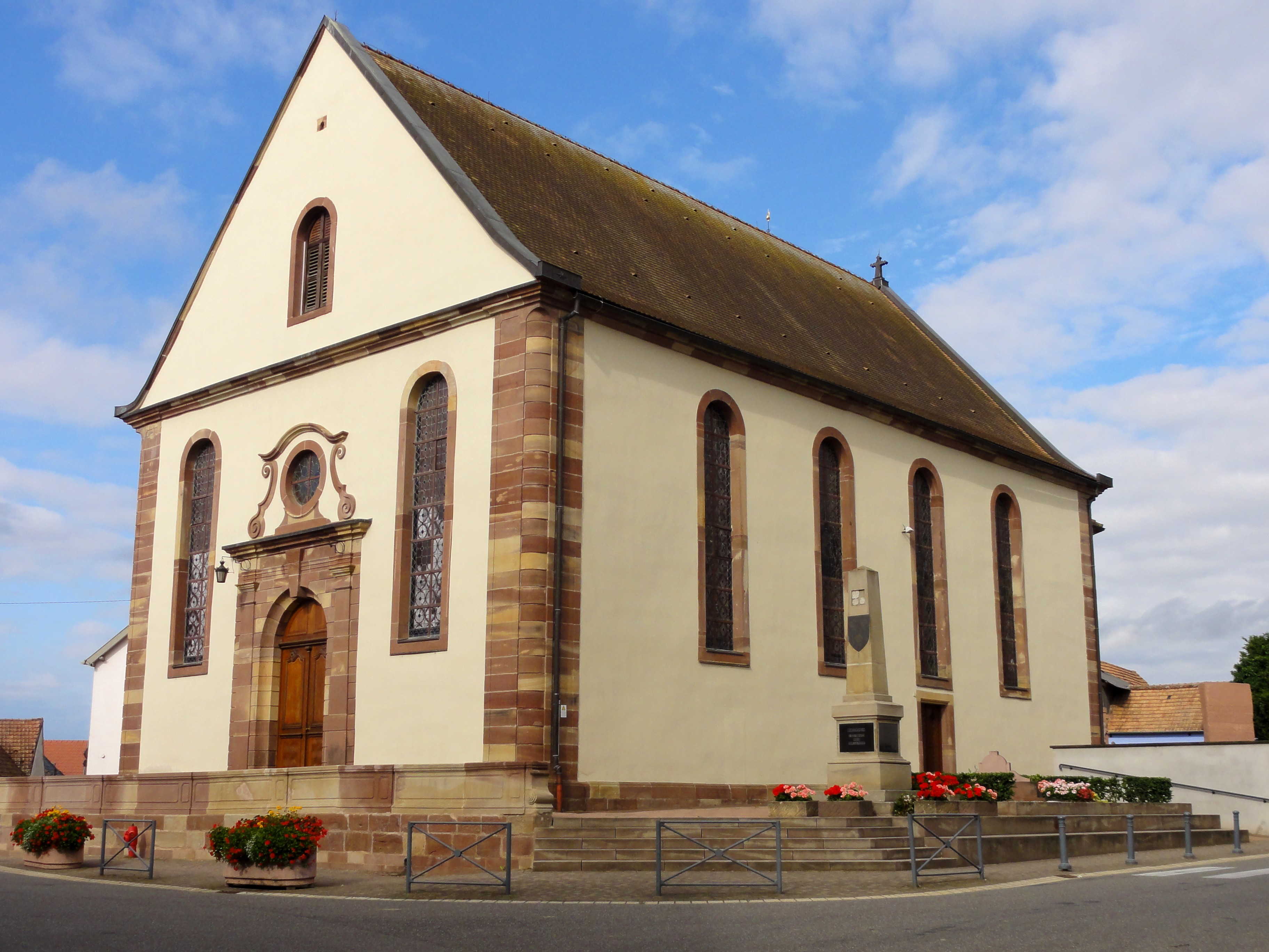 Alsace, Bas-Rhin, Wingersheim, Église Saint-Nicolas (PA00085242, IA67009255).